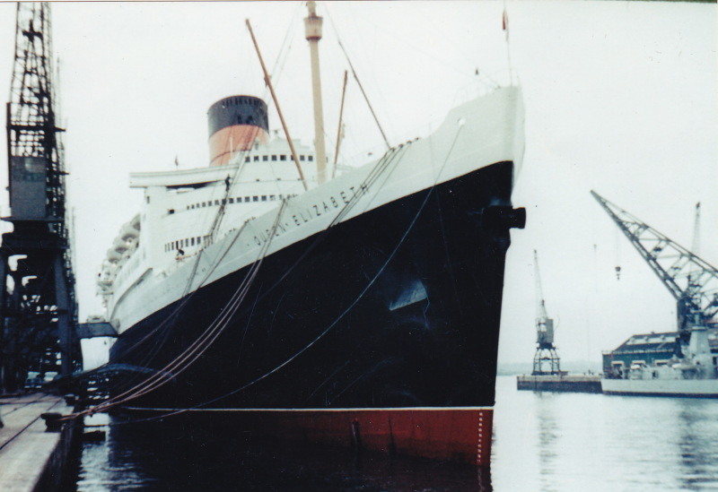 at Southampton, about 1968 (exact date unknown). Scanned from the original Photo of my collection.